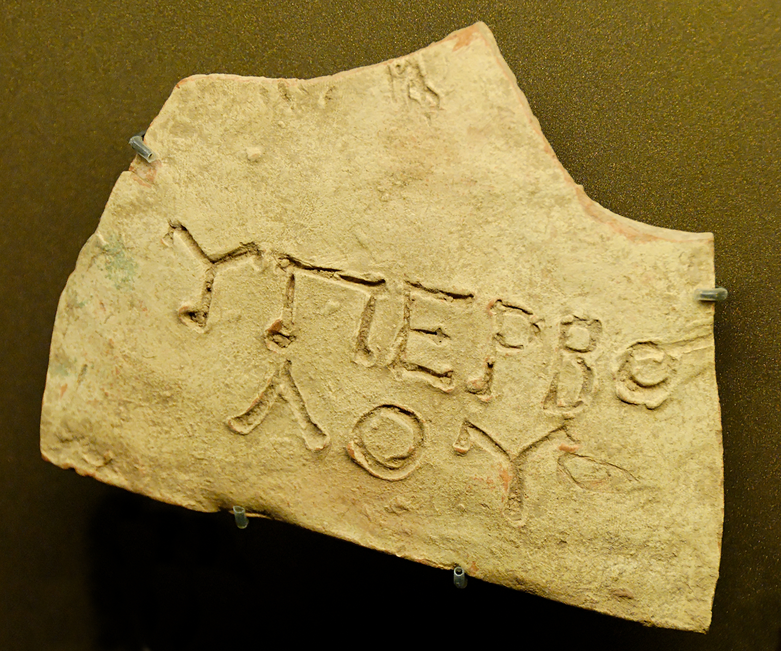 Fragment from the back of a Nike figurine bearing the signature of its maker, Hyperbolos, here in the genitive case (ΥΠΕΡΒΟΛΟΥ) as is the rule. Terracotta, 2nd century BC, made in Myrina.